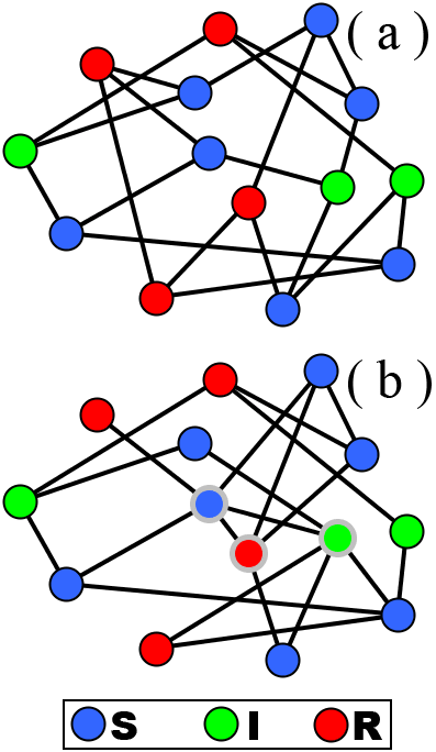 (a) Population with identical degree 3 (b) Population with different degrees The legend indicates the epidemiological classes of the individuals